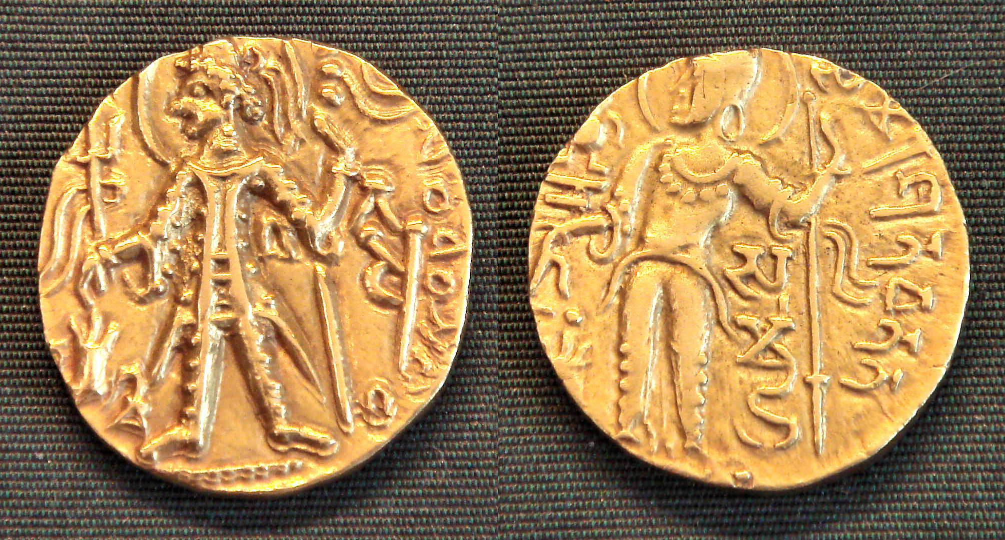 Late Kushan coinage. British Museum. Personal photograph 2006.